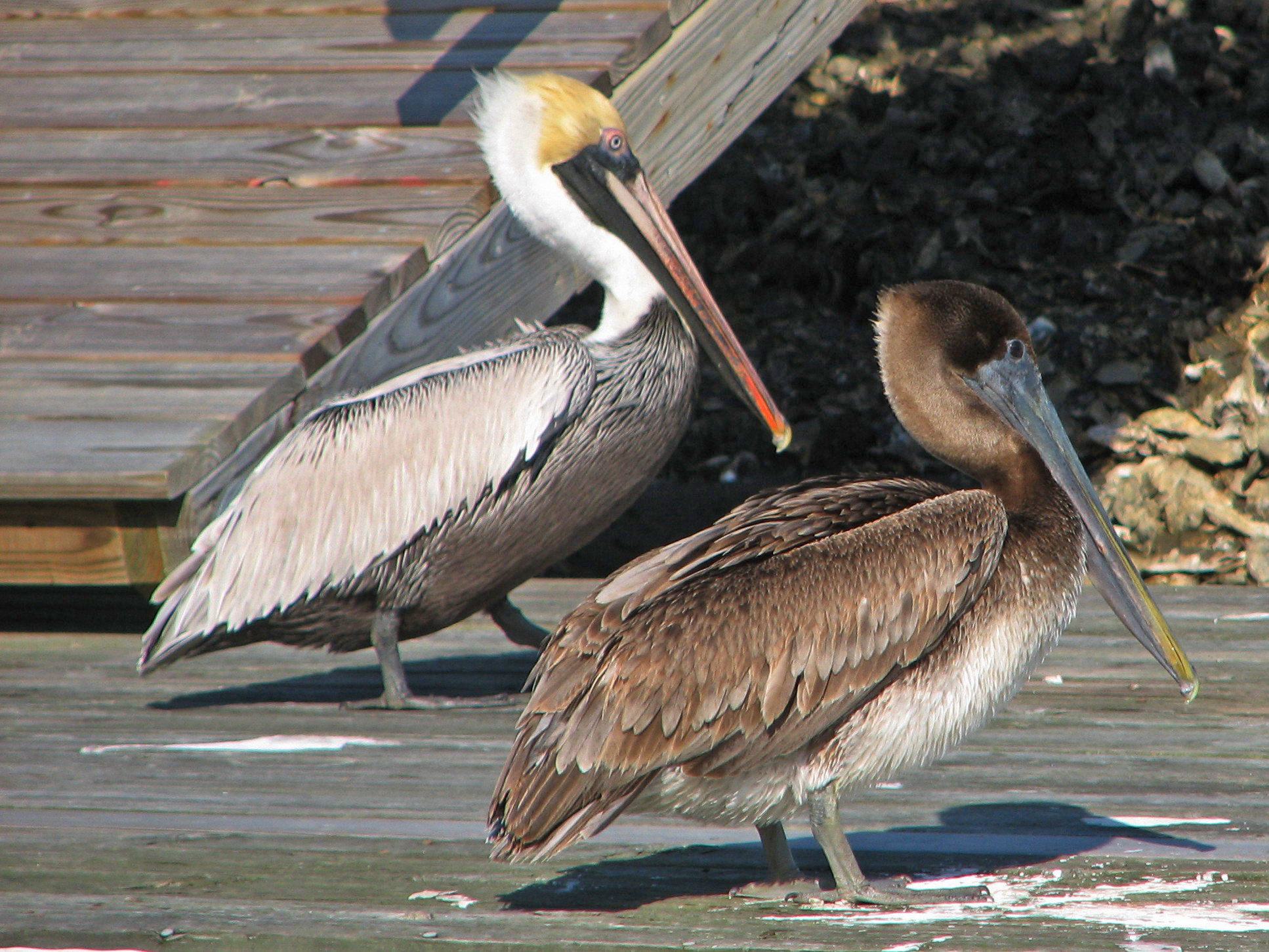 Brown Pelican (Pelecanus_occidentalis) in North Carolina. Adult on left, juvenile on right.